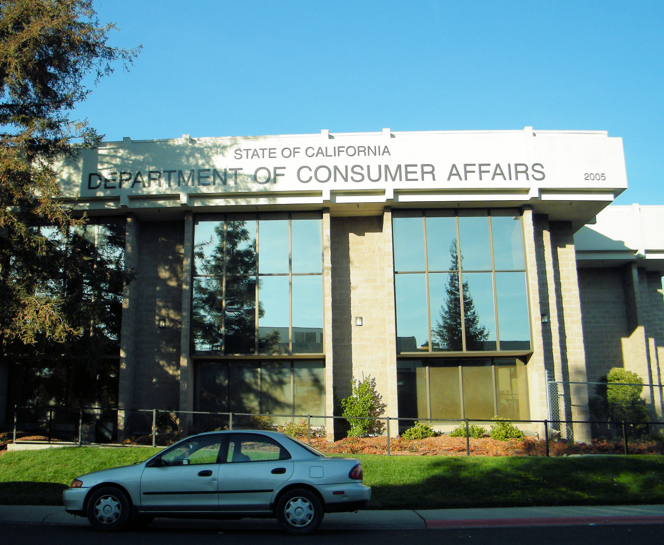 A California Department of Consumer Affairs office building at 2005 Evergreen Street in Sacramento. This building is home to several DCA agencies, including the Medical Board, the Dental Board, the Psychology Board, the Structural Pest Control Board, the Podiatric Medicine Board, the Physical Therapy Board, and the Physician Assistant Committee.